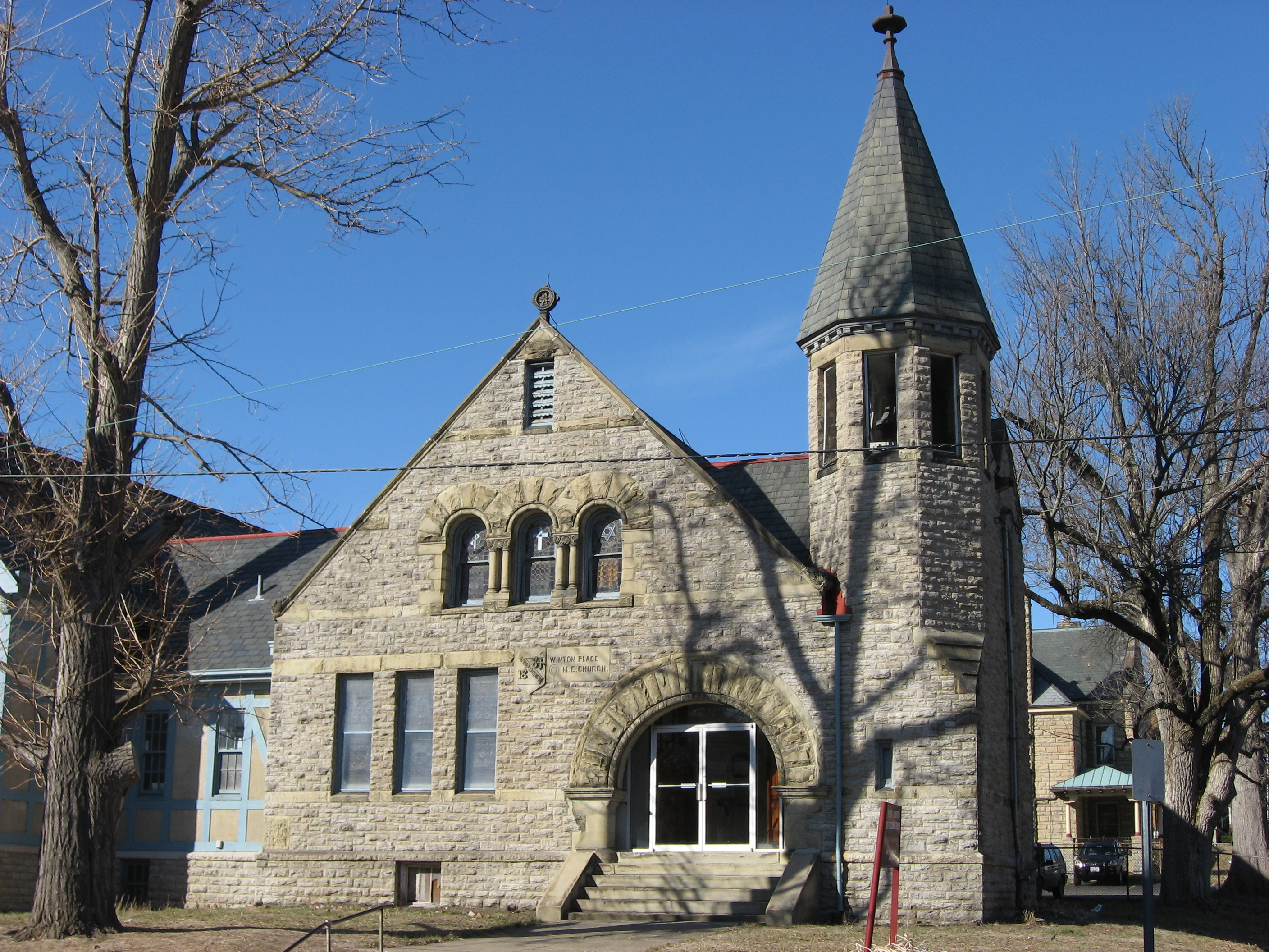 Front of the Winton Place Methodist Episcopal Church, located at 700 E. Epworth Avenue in the Spring Grove Village neighborhood of Cincinnati, Ohio, United States. Built in 1884, it is listed on the National Register of Historic Places.